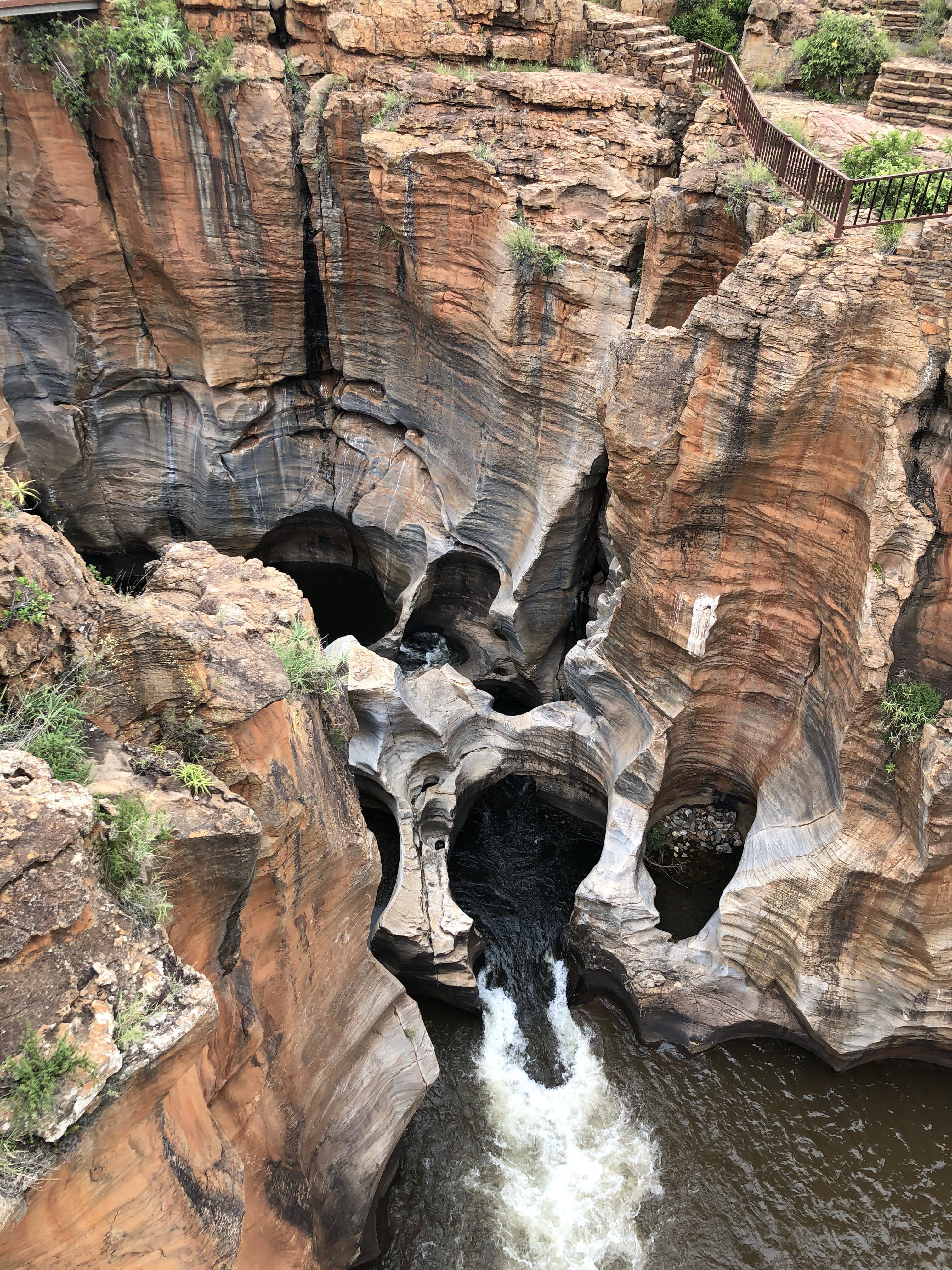 This is an image with the theme "Africa on the Move or Transport" from: South Africa